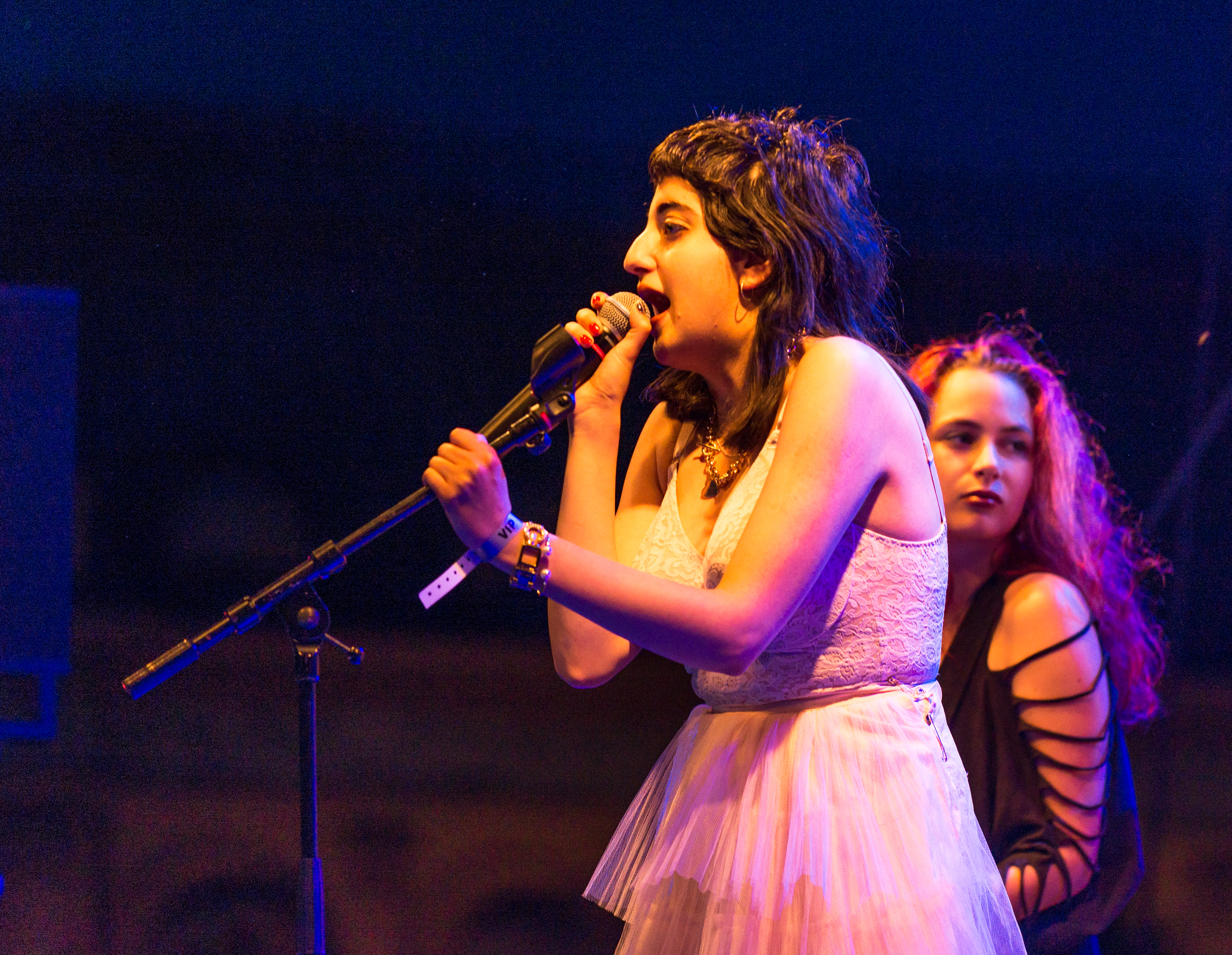 Dolores Haze in Kungsträdgården in Stockholm 2016.